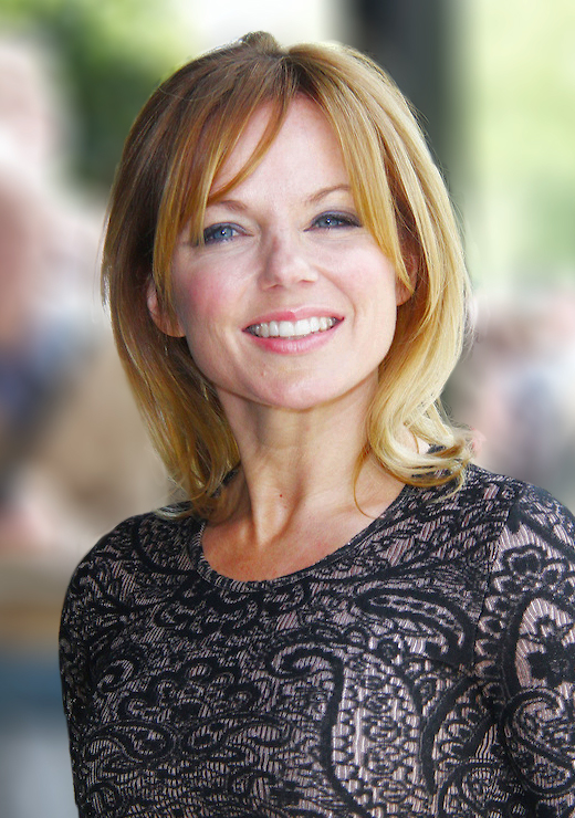 Geri Halliwell at the Ivor Novello Awards in May 2013, Grosvenor House Hotel London, UK.